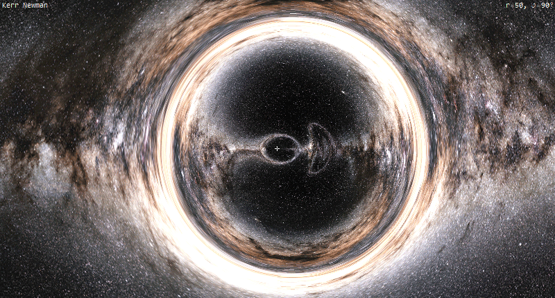 Gravitational lensing of an overextremal Kerr-Newman naked ring singularity with spin a/M=√2 and charge Q/M=√2, in natural units of G=K=c=1 (so a²+Q²=2M²). The observer is at r=50M and views the naked singularity from the equatorial plane (edge on); its left side is rotating towards the observer. FOV: 77.4°×38.7°. The equations that were used to raytrace the image can be found here. Comparison: Ref. 1[1] and Ref 2[2]